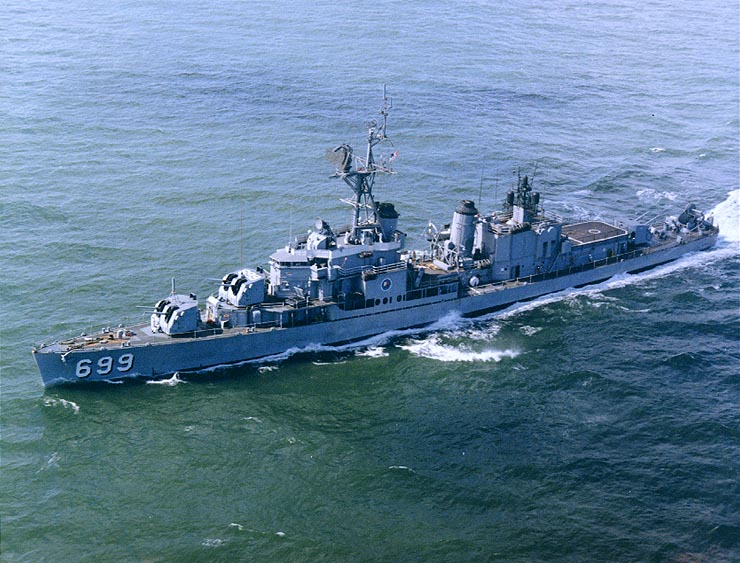 The U.S. Navy destroyer USS Waldron (DD-699) underway at sea in 1964, following her "FRAM II" modernization.